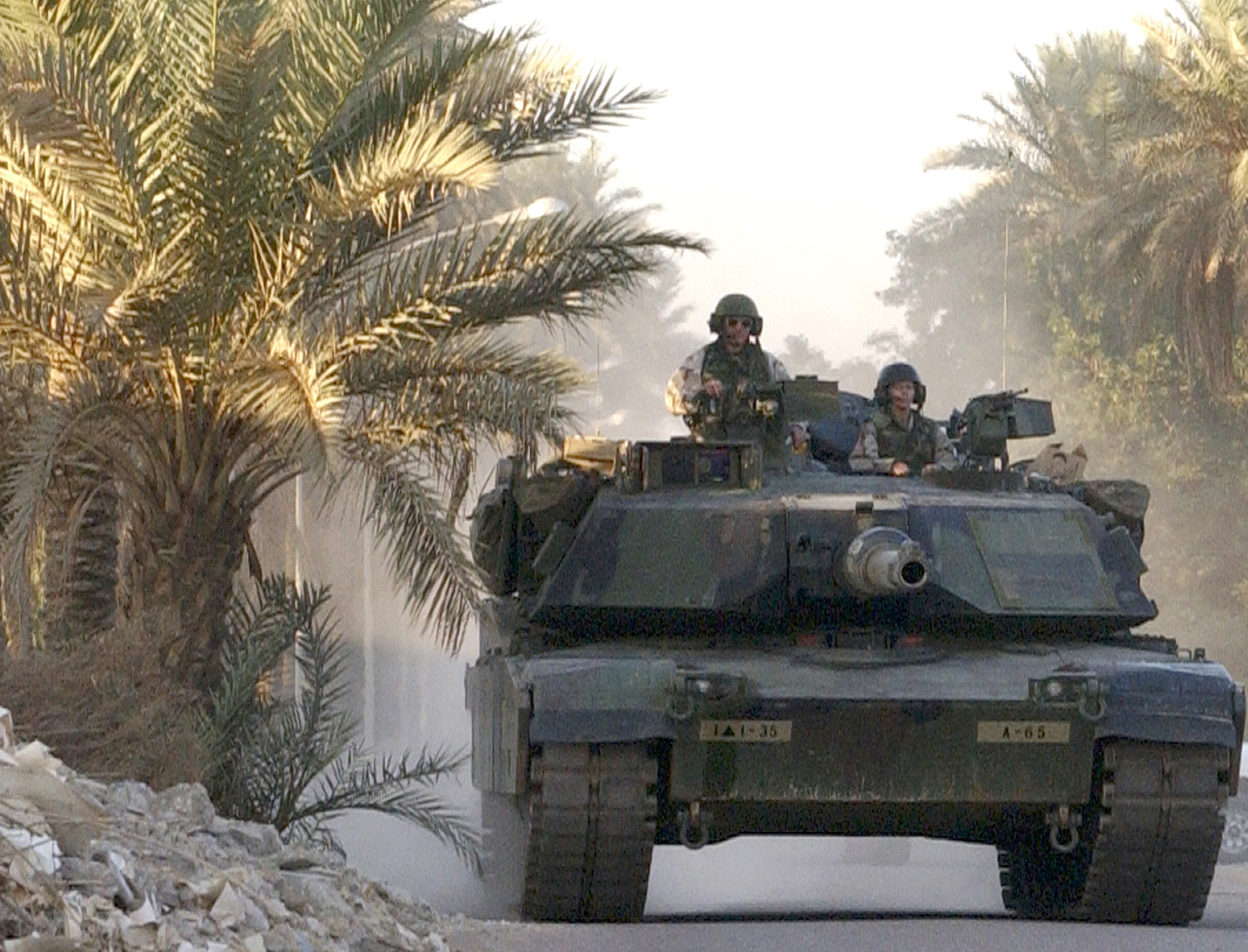 M1A1 Abrams, 1st Armored Division, Baghdad